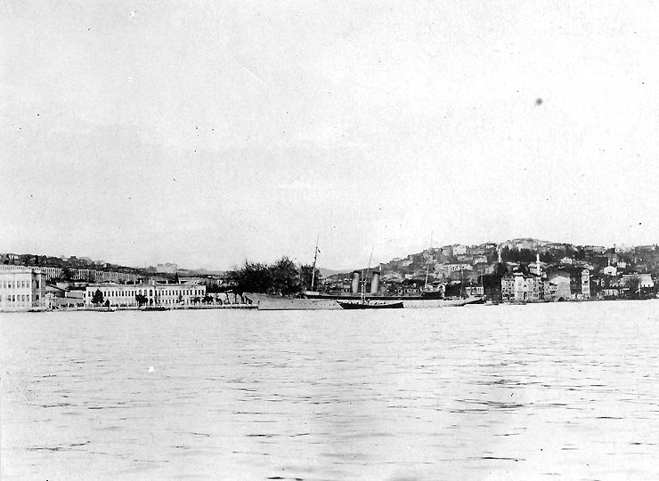 USS Noma (SP-131) off the Sultan's palace, Constantinople, Turkey